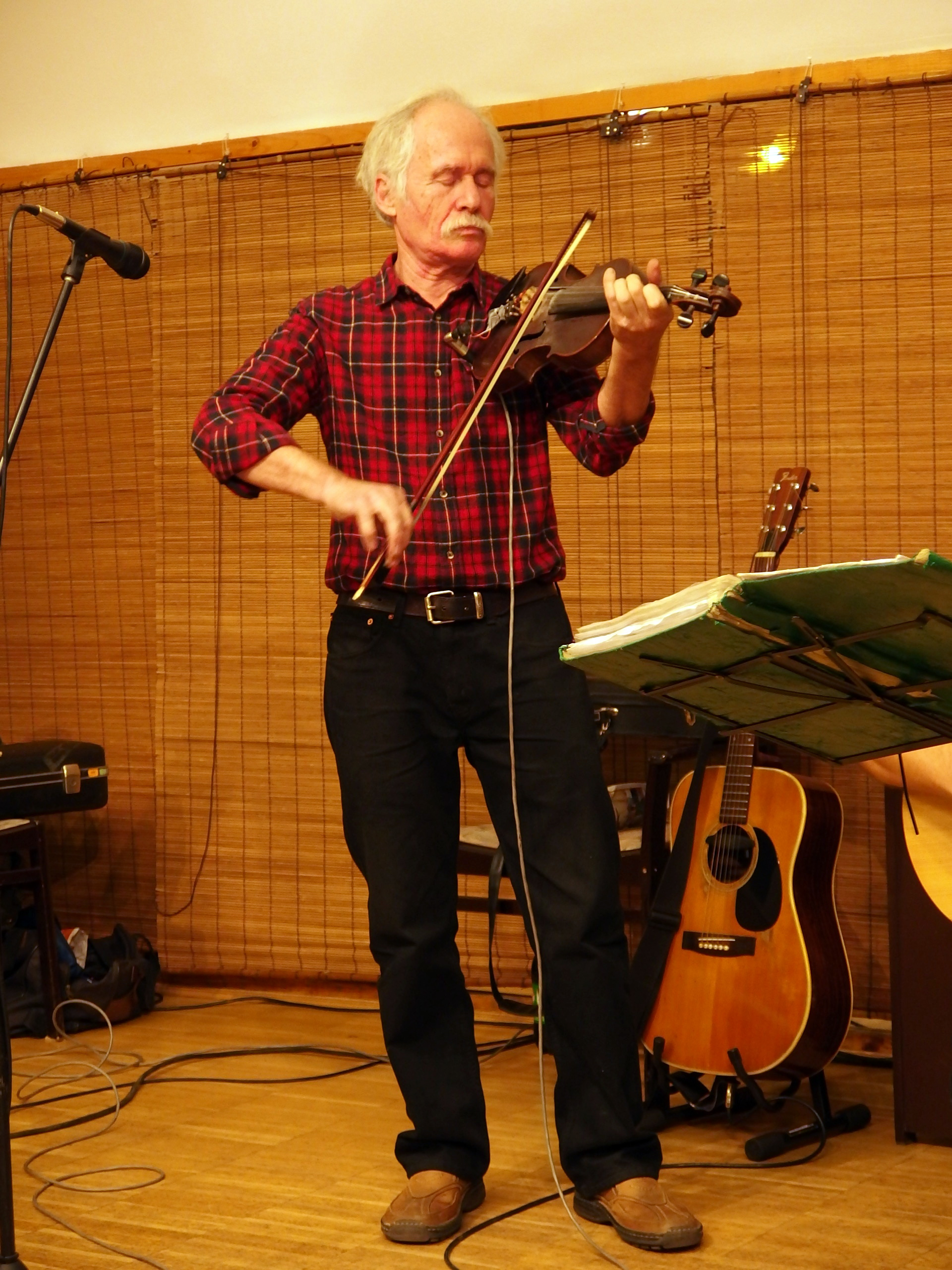 Csongor Turáni, Hungarian folk violinist